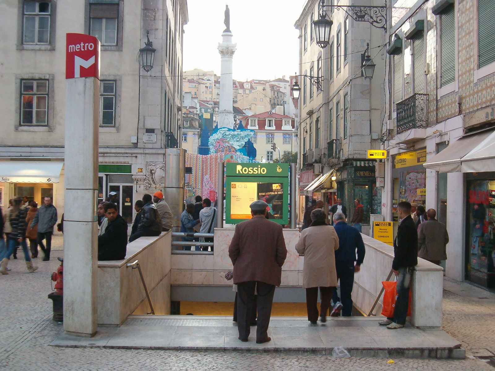 Metro station Rossio (Lisboa)